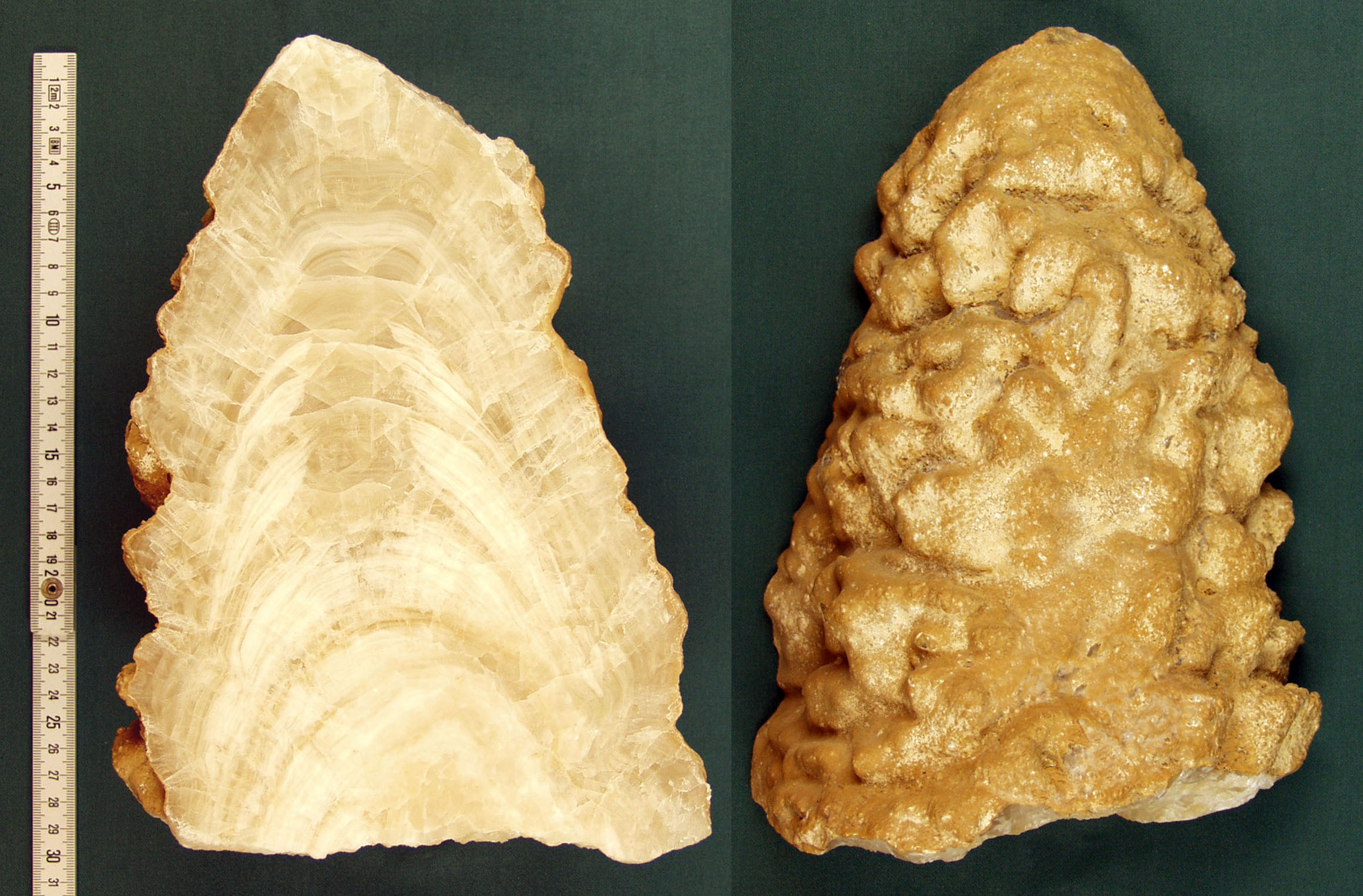 Stalagmite - outer shape (right) and inner view (left), showing bands which are related to changing climate conditions (in particular precipitation) during its time of growth. Thus speleothems might be used as paleoclimate archives. With an assumption of a mean growth rate of dripstones of 1 cm/100 years, this stalagmite may have recorded local climate conditions of the last 3000 years. (As an example for scientific investigations with such records see